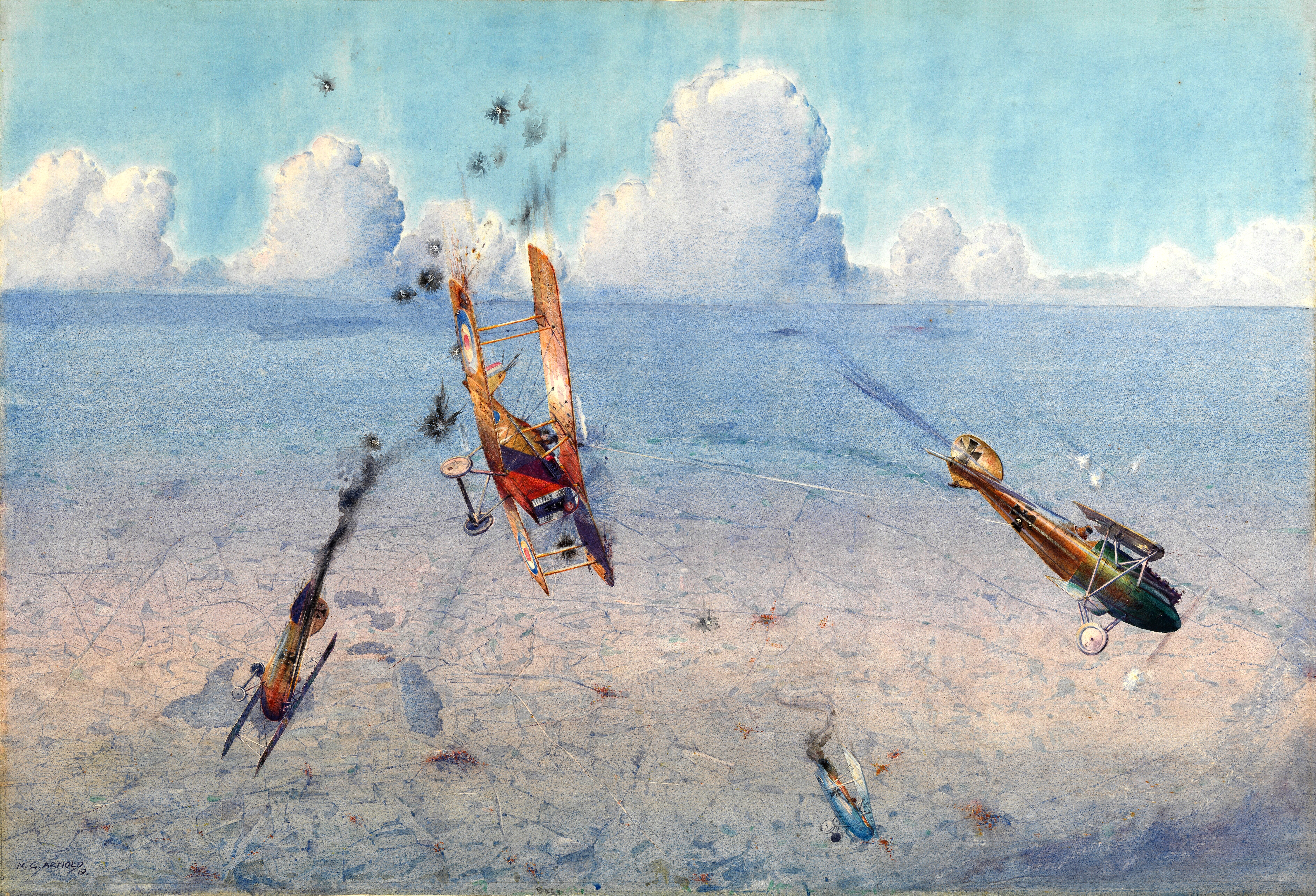 The Last Fight of Captain Ball, VC, DSO and 2 Bars, MC, 7th May 1917.Citation text: 'For most conspicuous and consistent bravery from the 25th of April to the 6th of May, 1917, during which period Captain Ball took part in twenty-six combats in the air and destroyed eleven hostile aeroplanes, drove down two out of control, and forced several others to land. In these combats Captain Ball, flying alone, on one occasion fought six hostile machines, twice he fought five and once four. When leading two other British aeroplanes he attacked an enemy formation of eight. On each of these occasions he brought down at least one enemy. Several times his aeroplane was badly damaged, once so seriously that but for the most delicate handling his machine would have collapsed, as nearly all the control wires had been shot away. On returning with a damaged machine he had always to be restrained from immediately going out on another. In all, Captain Ball has destroyed forty-three German aeroplanes and one balloon, and has always displayed most exceptional courage, determination and skill.' London Gazette, 8 June 1917. He was also awarded the Legion d'Honneur (France) and Order of St George, 4th Class (Russia). He is buried in Annoeullin Communal Cemetery (Departement du Nord) France, Grave 643. Capt. Ball was formerly of Notts & Derby Regt 7 Bn (Robin Hood Bn, Sherwood Foresters). Son of Sir Albert Ball, JP, Nottingham.